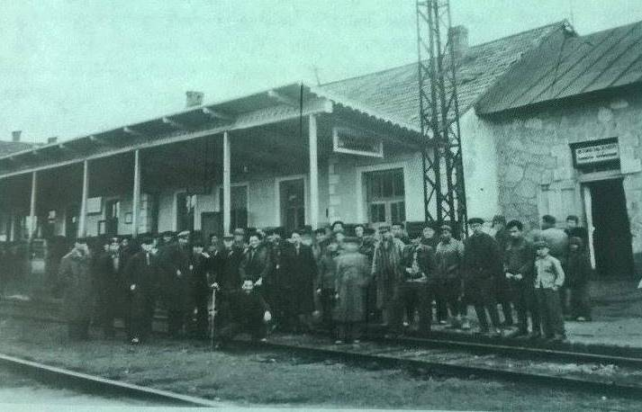 Senaki railway station , XX